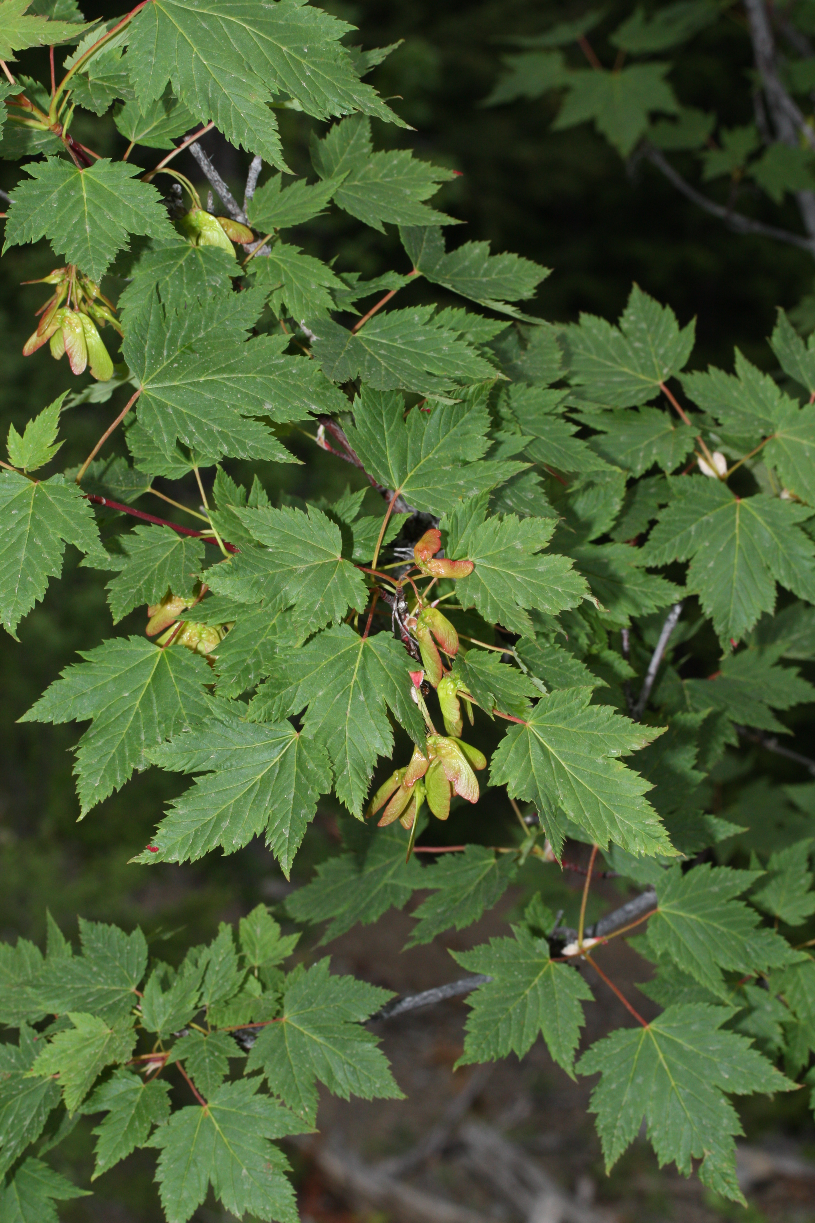 Douglas Maple